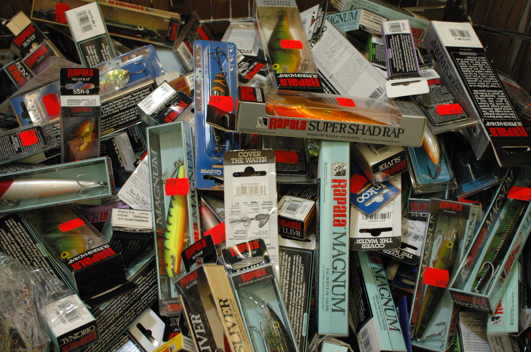 Rapala fishing lures for sale in a hardware store in Helsinki. Some lures from other manufacturers may also be seen in the pile.